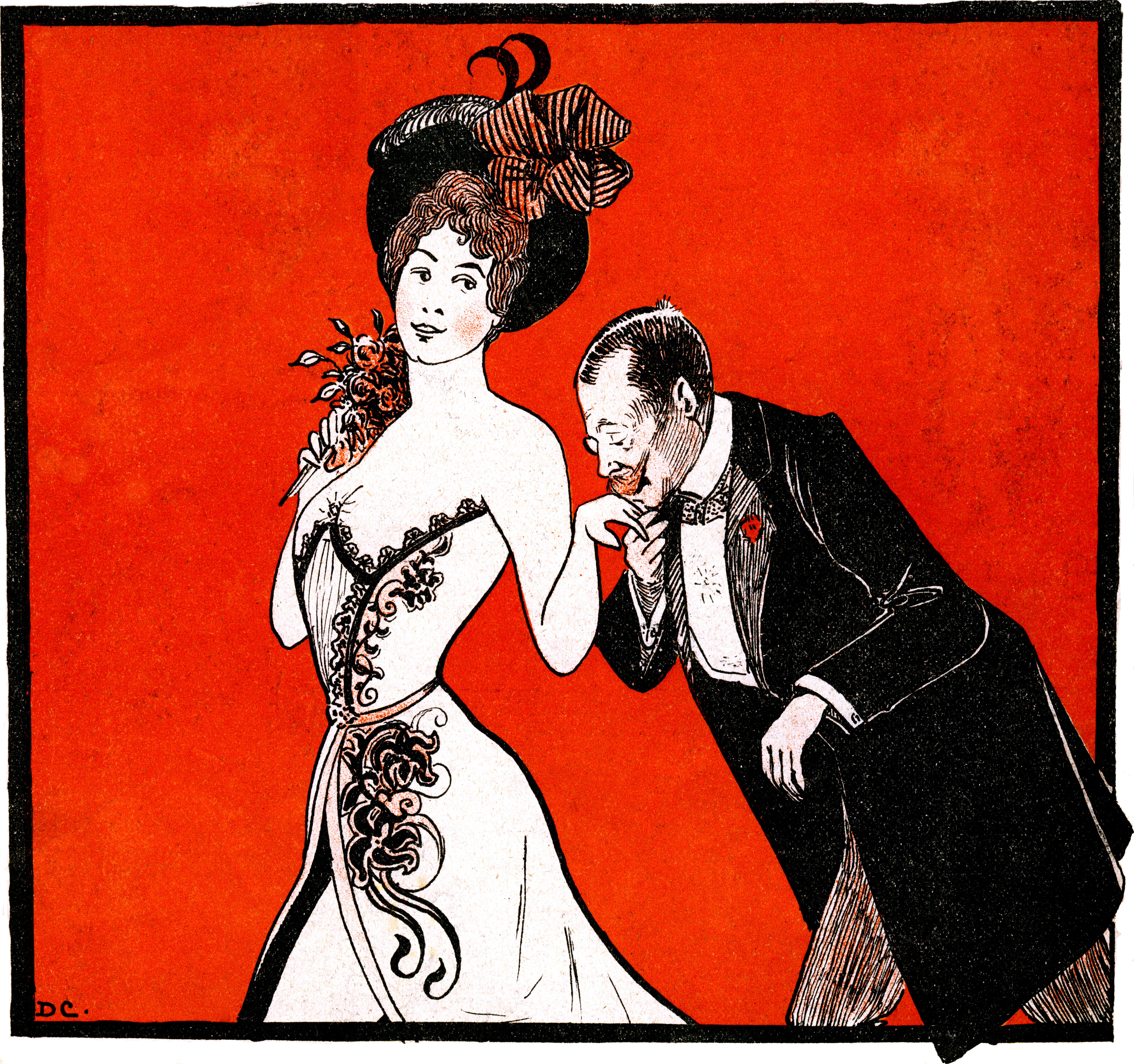 More practical — Miss, I will do everything in my life I will pay your love — — — Chat — pay rather my debts.